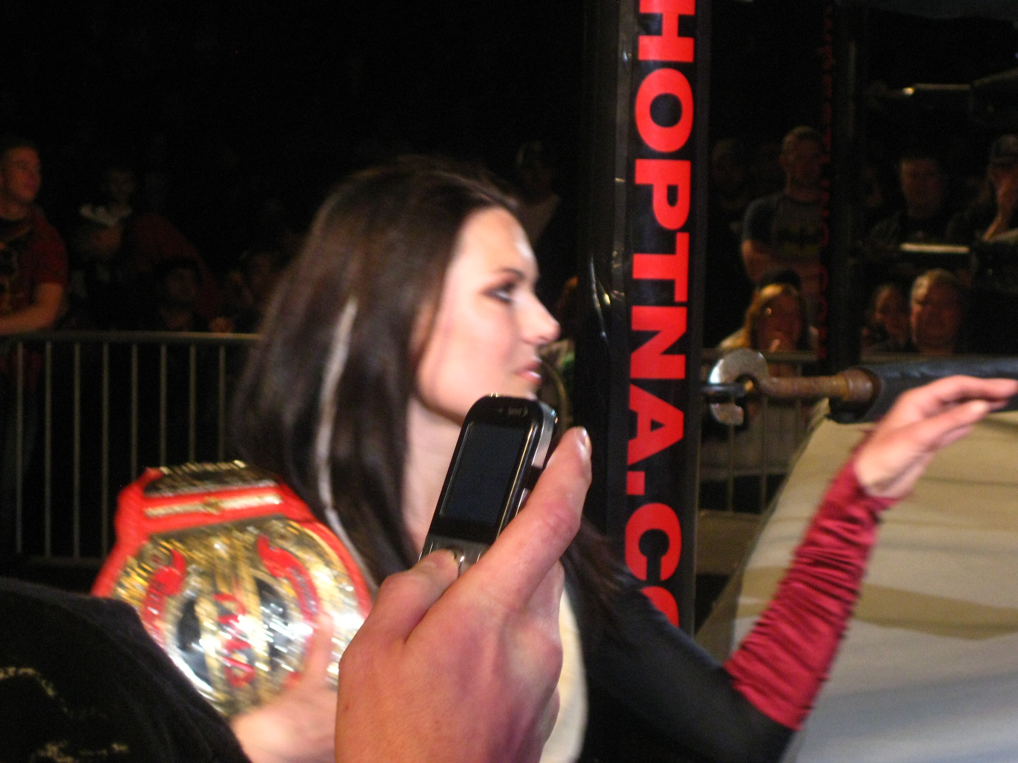 A TNA Live! Even at the ShoWare Center in Kent, WA. No PRO cameras were allowed so I had to put my Canon PowerShot SD1100 IS to work!